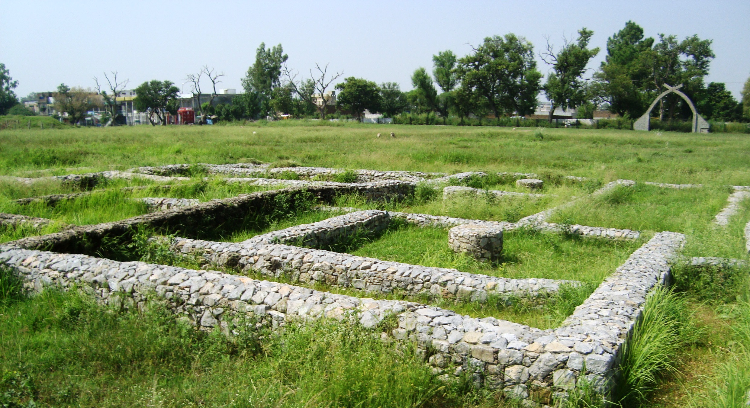 Bhir Mound This is a photo of a monument in Pakistan identified as the PB-126